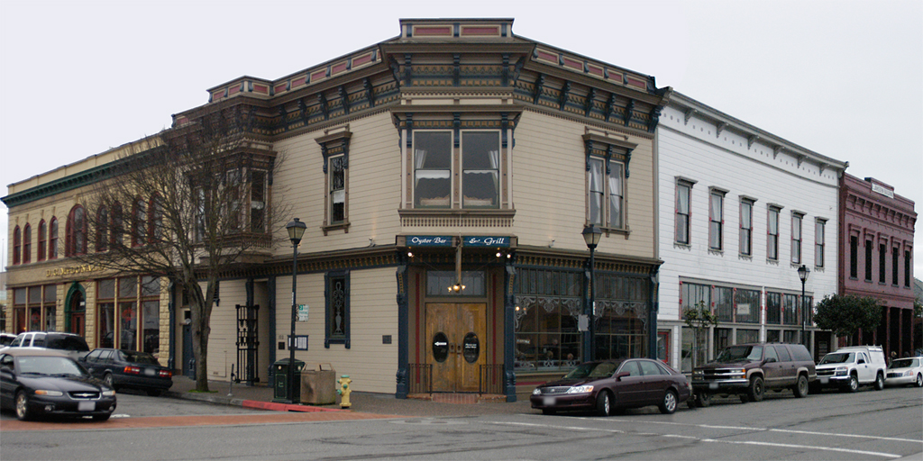 Photograph of historic corner in Eureka, CA showing the First & F Street building on corner in foreground. The other buildings shown are the McDonald and the Janssen buildings.